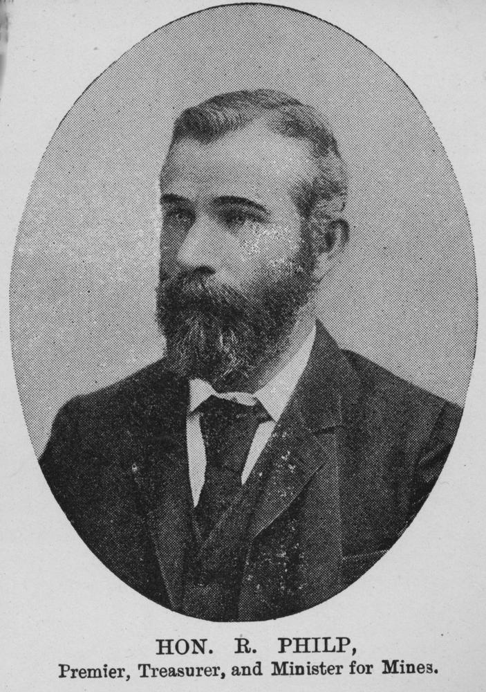 Sir Robert Philp (1851-1922), Premier of Queensland